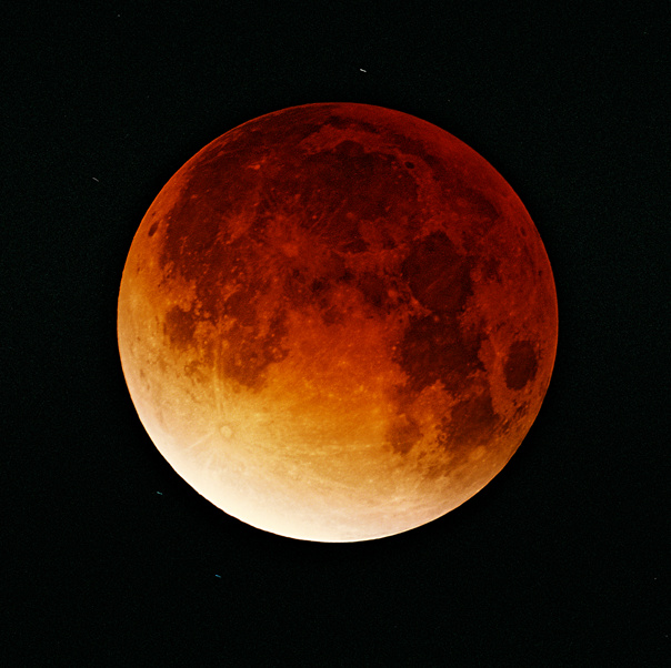 Lunar eclipse of 2003 November 9